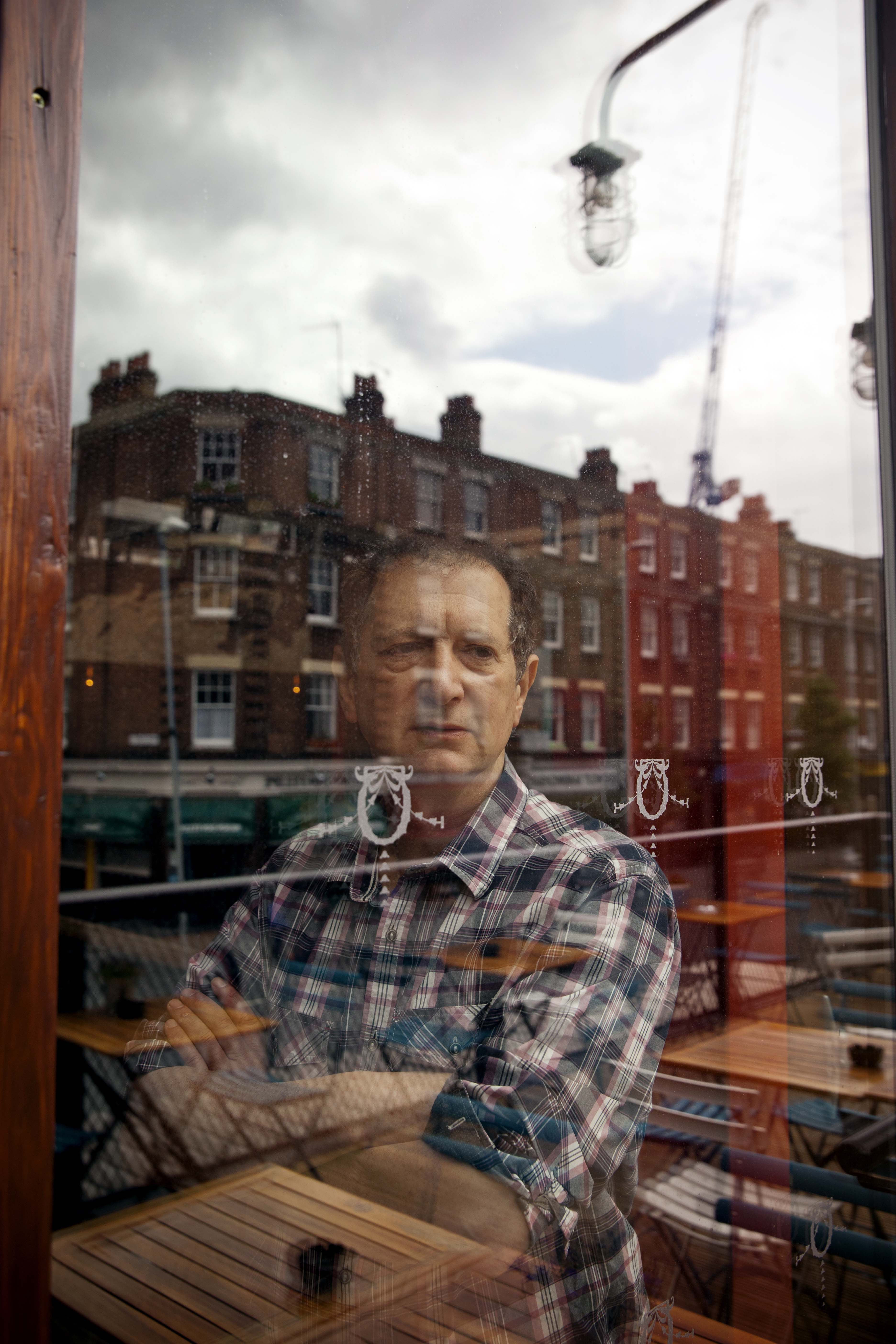 David Lan at the Young Vic, 2015.